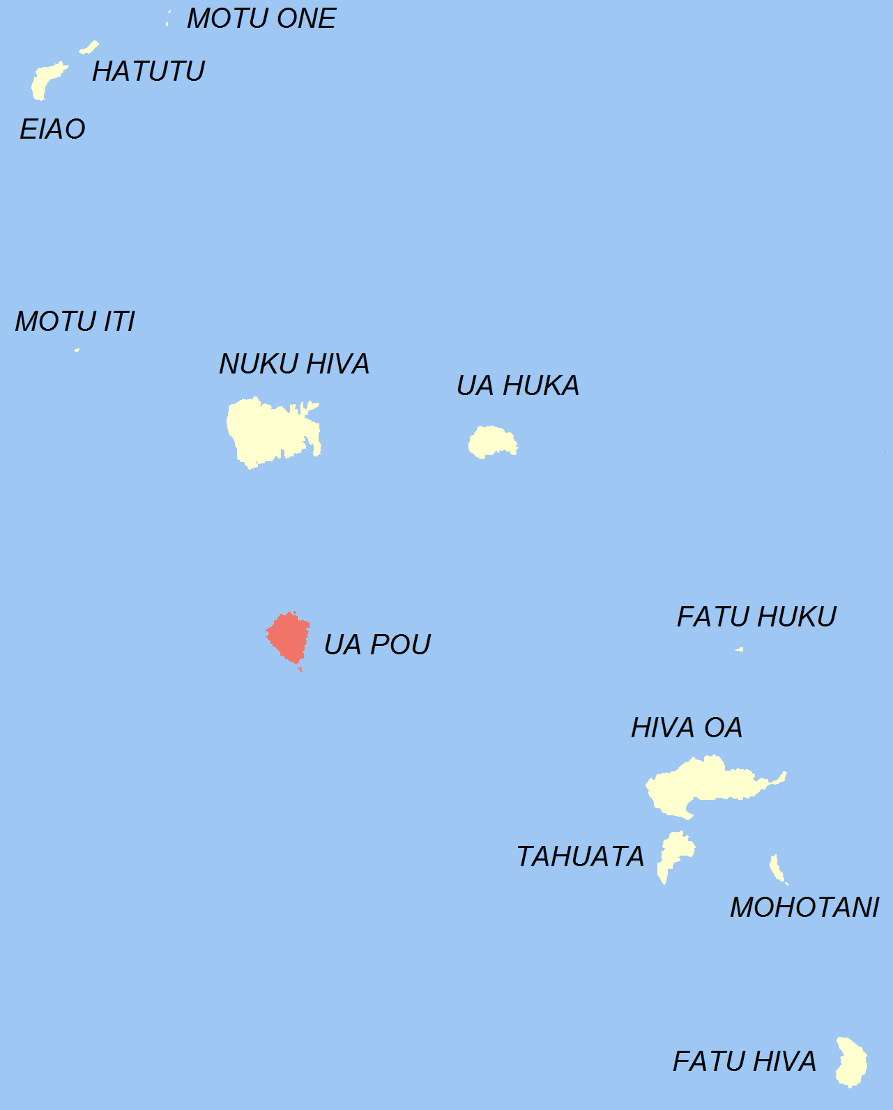 Map of the commune of Ua-Pou, made by myself.